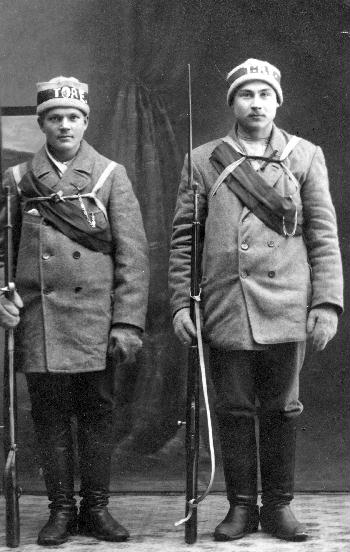 Reds from Tampere